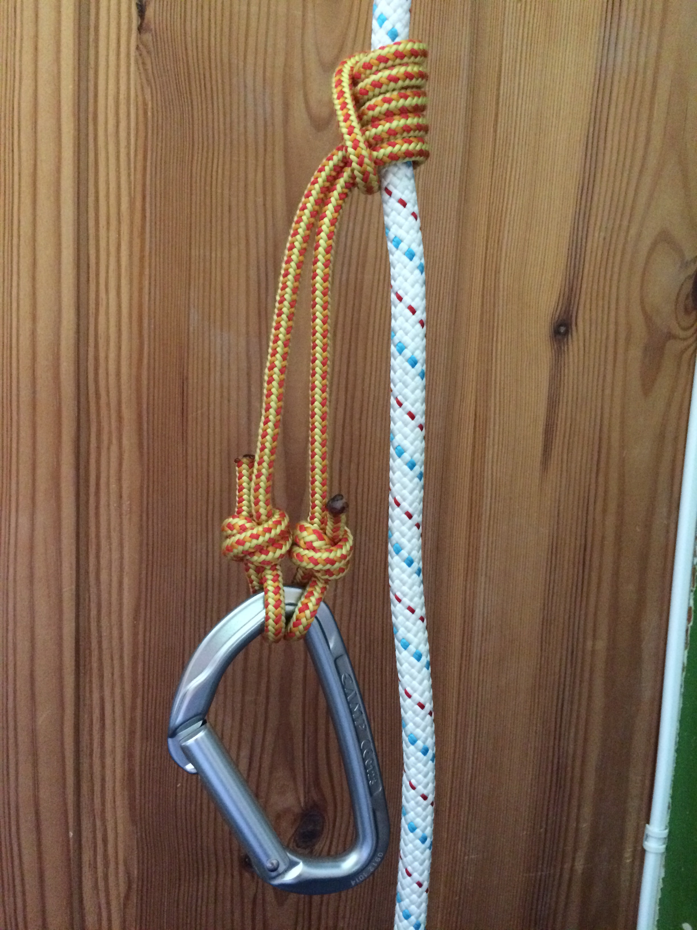 Schwabisch hitch